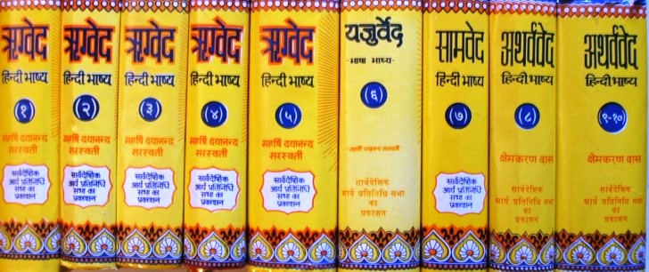 Photo of Hindi Bhahsya of Vedas published by Sarvadeshik Arya Pratinidhi Sabha